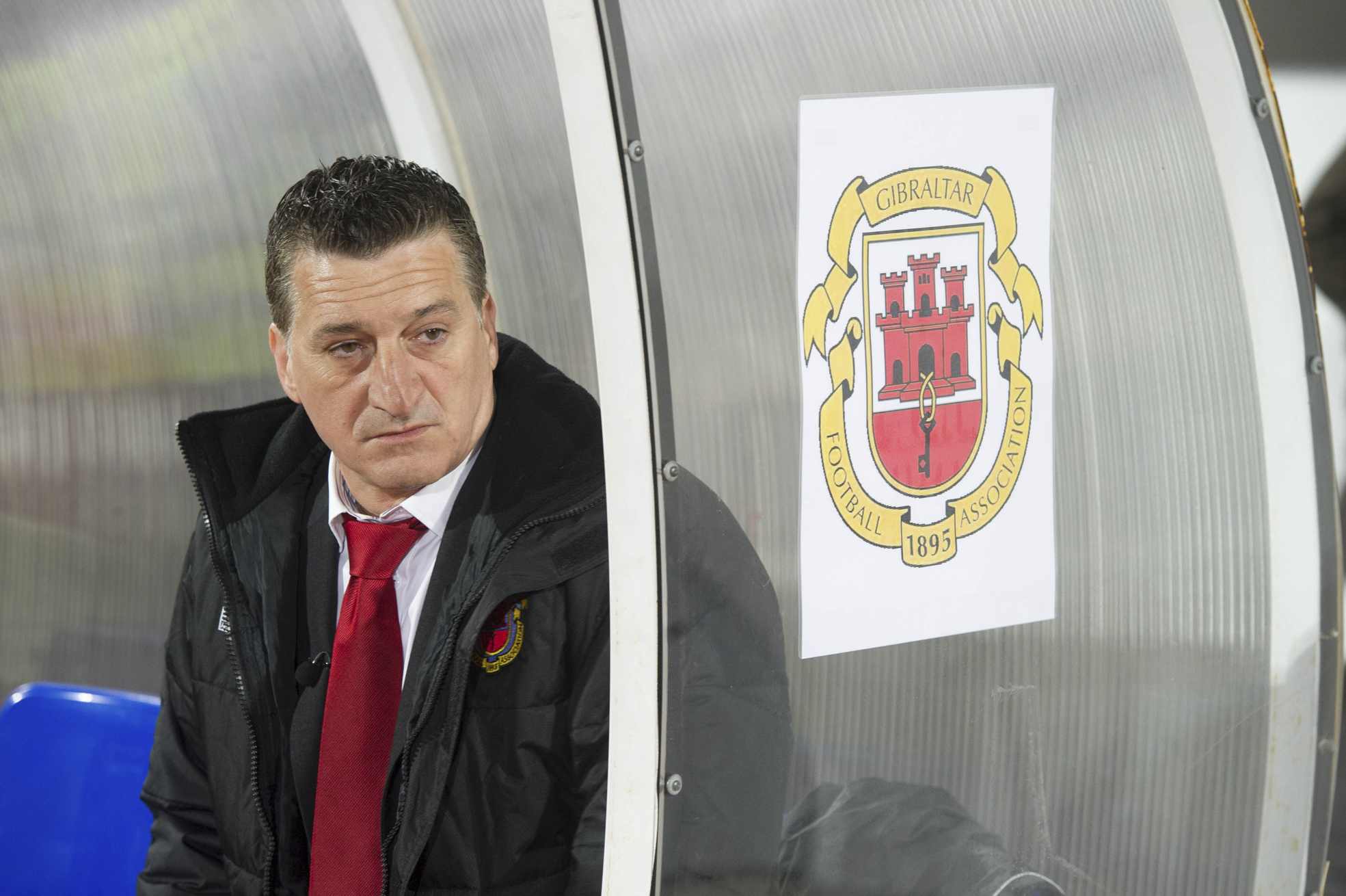 Gibraltar Football Association's head coach and manager Allen Bula watches a Gibraltar v. Faroe Islands friendly football match at the Victoria Stadium.